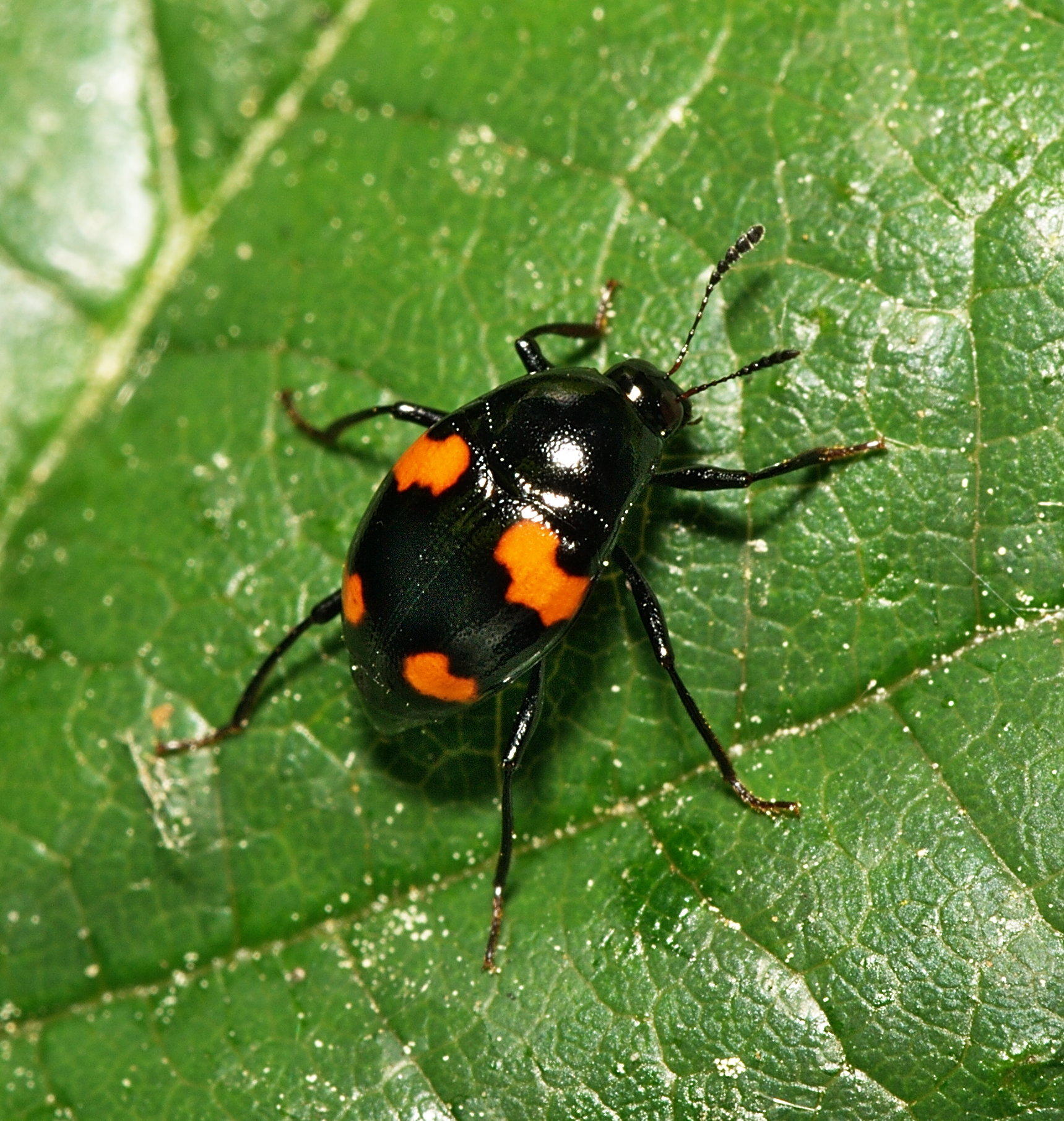 Scaphidium quadrimaculatum from a forest near Ratingen, Germany.